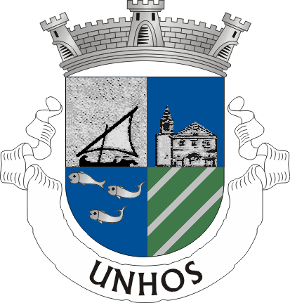 Ancient crest of Unhos parish, Loures municipality (Portugal) Made by User:Brian Boru, based on a crest of Sérgio Horta